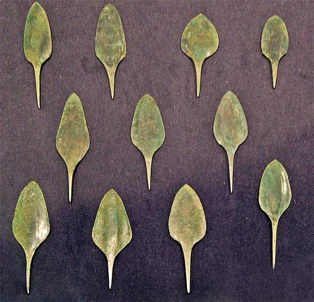 Prehistoric spear points in copper so-called «Palmela points». Part of a funerary equipment from a Bellbeaker culture burial in San Román de Hornija (Valladolid, Spain) in the Archaeological Museum of Valladolid, dated in 1800 BCE